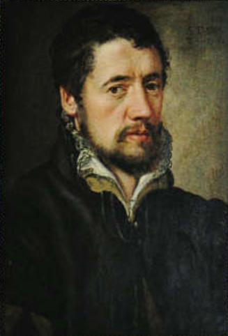 Portrait of the sculptor Alexander Colyn (1527-1612)